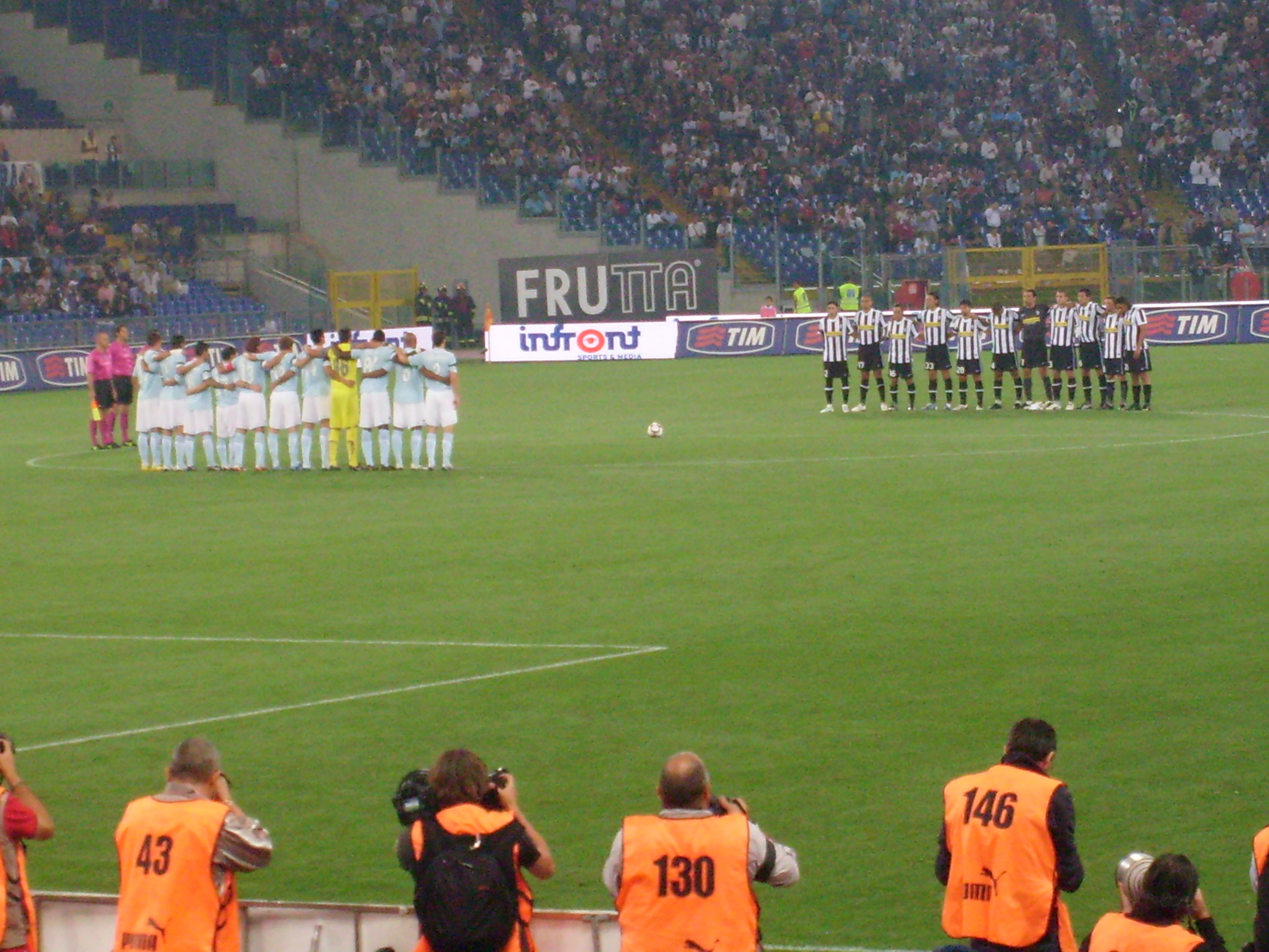 S.S. Lazio and Juventus F.C. teams commemorating Alessandro Capponi and Nicola Lo Buono before the Italian League 2009–10 Serie A match on September 12, 2009.